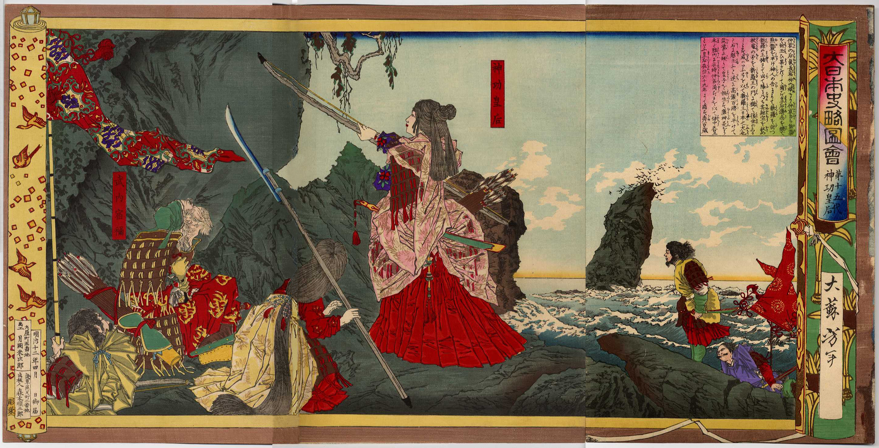 "Great Japan (Dai-Nihon) History Briefing Session, the 15th Empress Jingu." Expedition in Korea. Empress Jingu setting foot in Korea. Painting by Tsukioka Yoshitoshi in 1880. Takenouchi no Sukune (left side), Empress Jingu (middle).